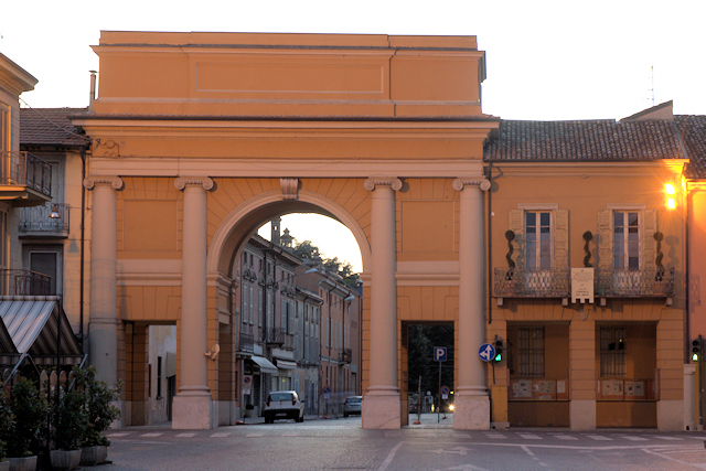 Arc "del Voltone" (architect Luigi Voghera), Castelleone (Province of Cremona), Italy